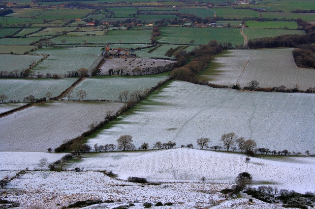 Snow in the fields south of Great Busby, North Yorkshire